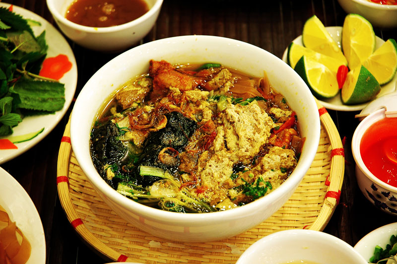 Flat rice noodle with field crab broth and condiments